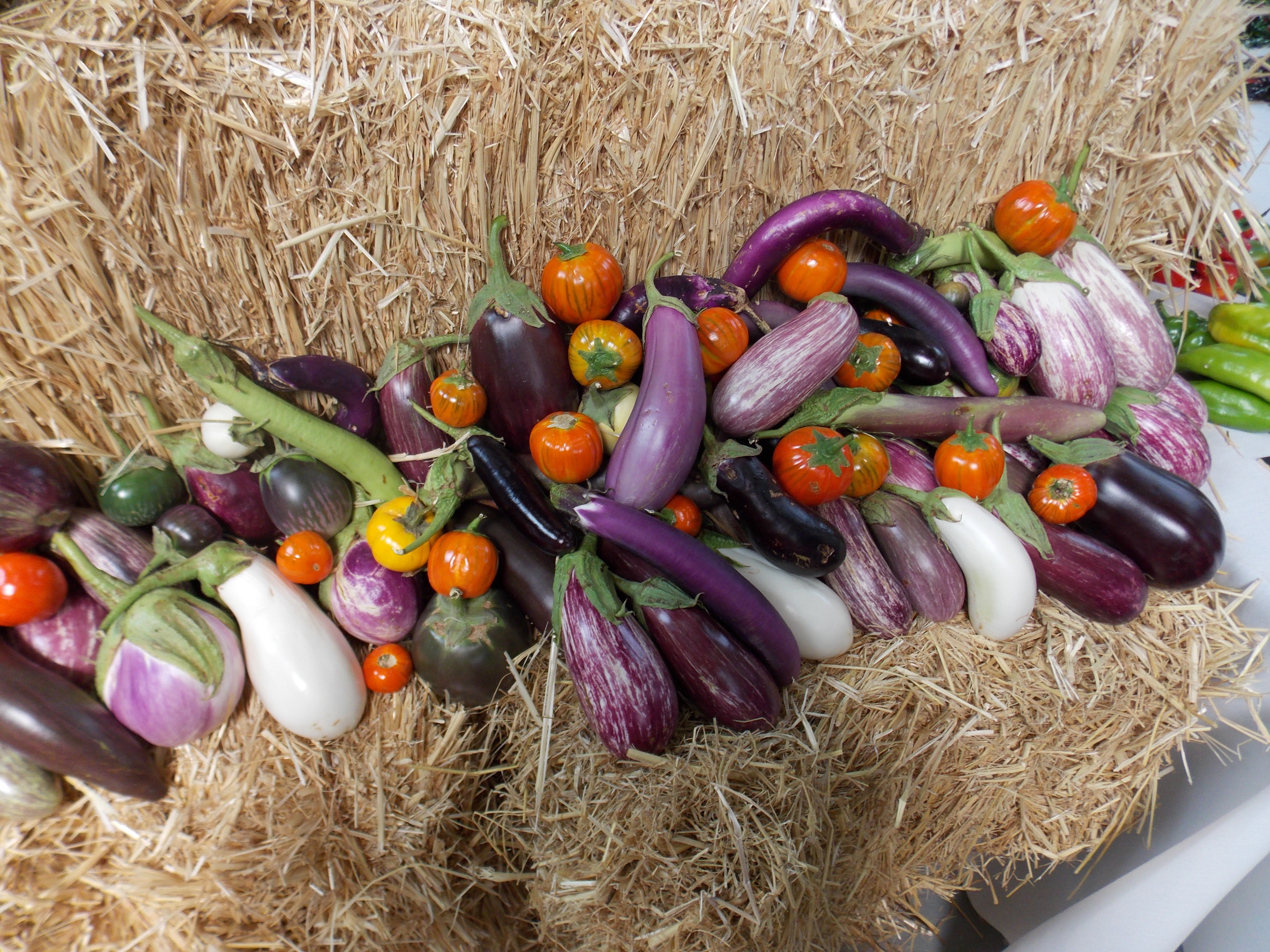 Display of heirloom varieties of eggplants, taken at the Baker Creek Second Annual National Heirloom Exposition in Santa Rosa, California, USA.